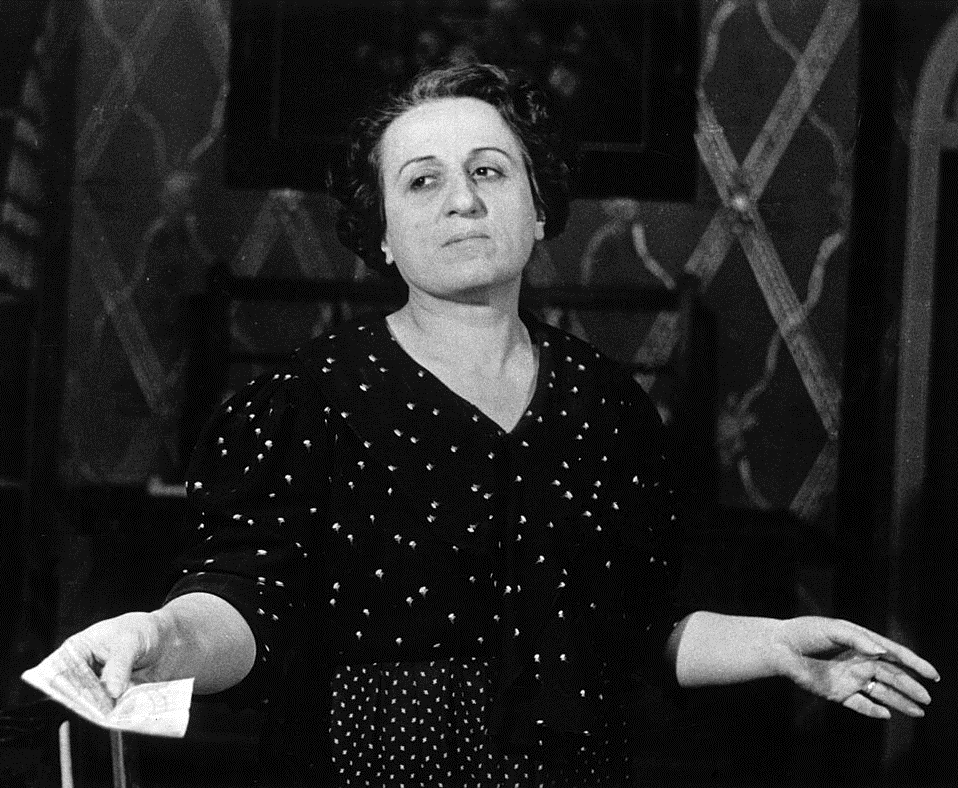 The Italian actress Titina De Filippo acting in the comedy 'Filumena Marturano' written by her brother Eduardo. Italy, 1947